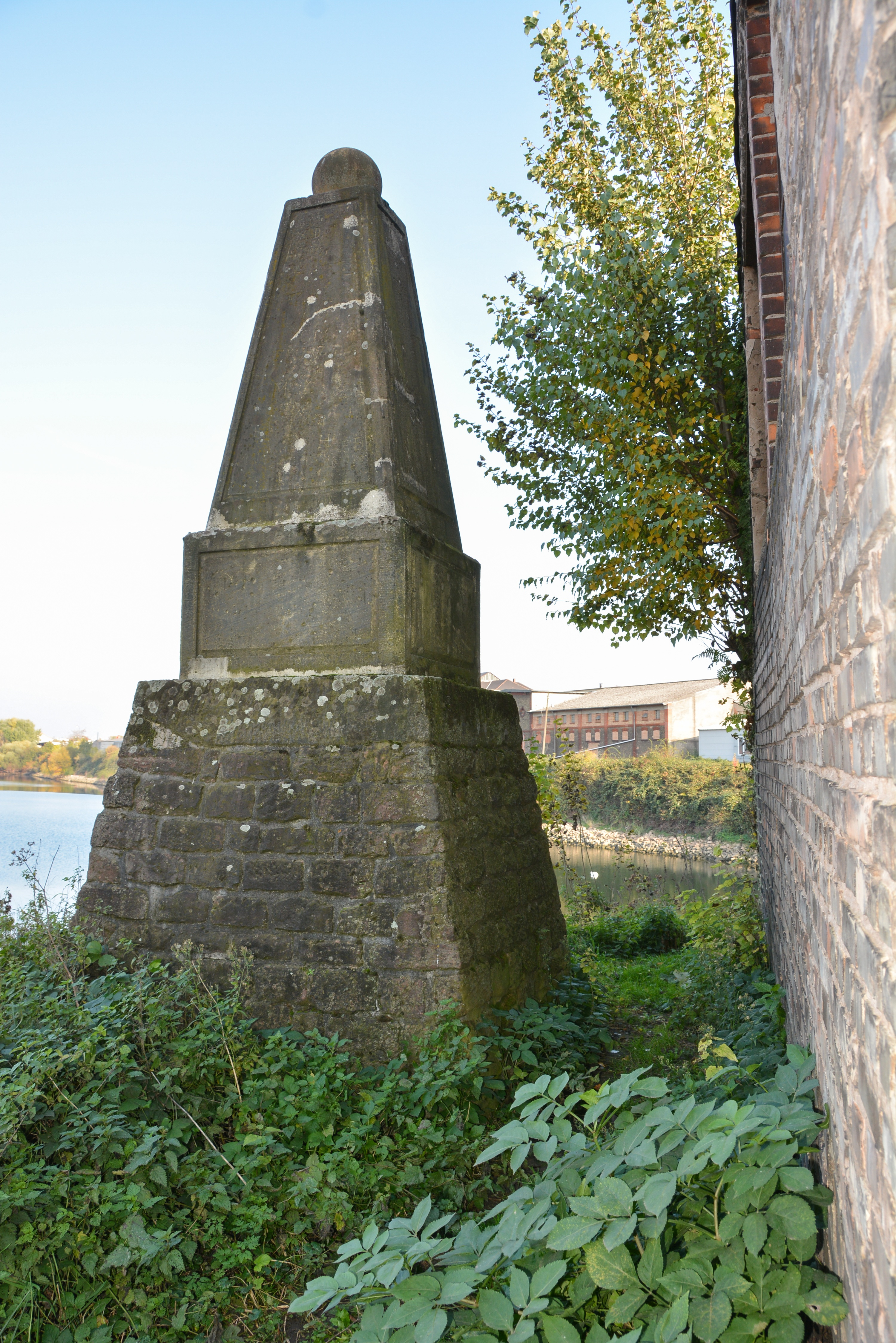 "Mire" in Kaiser Wilhelm Harbor, Mannheim, Germany, former target as a meridian measuring point for the observatory of Mannheim